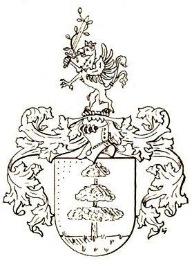 Coat of arms of the german family „von Pommer Esche“